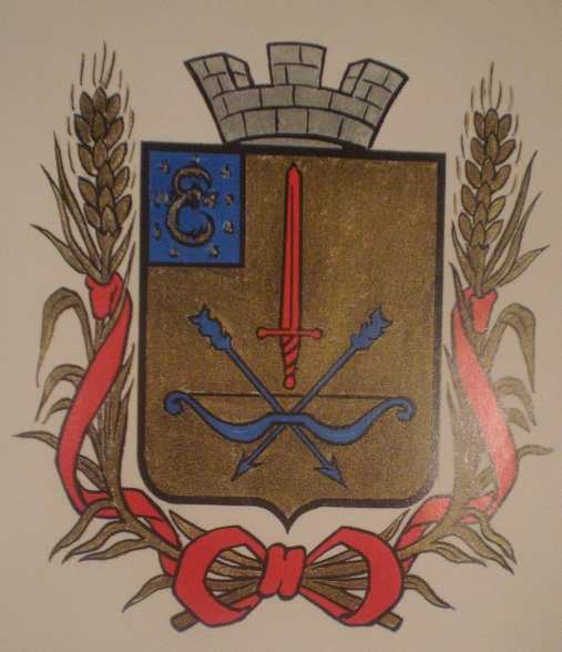 Coat of arms of Alexandrovsk (Ekaterinoslav gubernia), 1857.